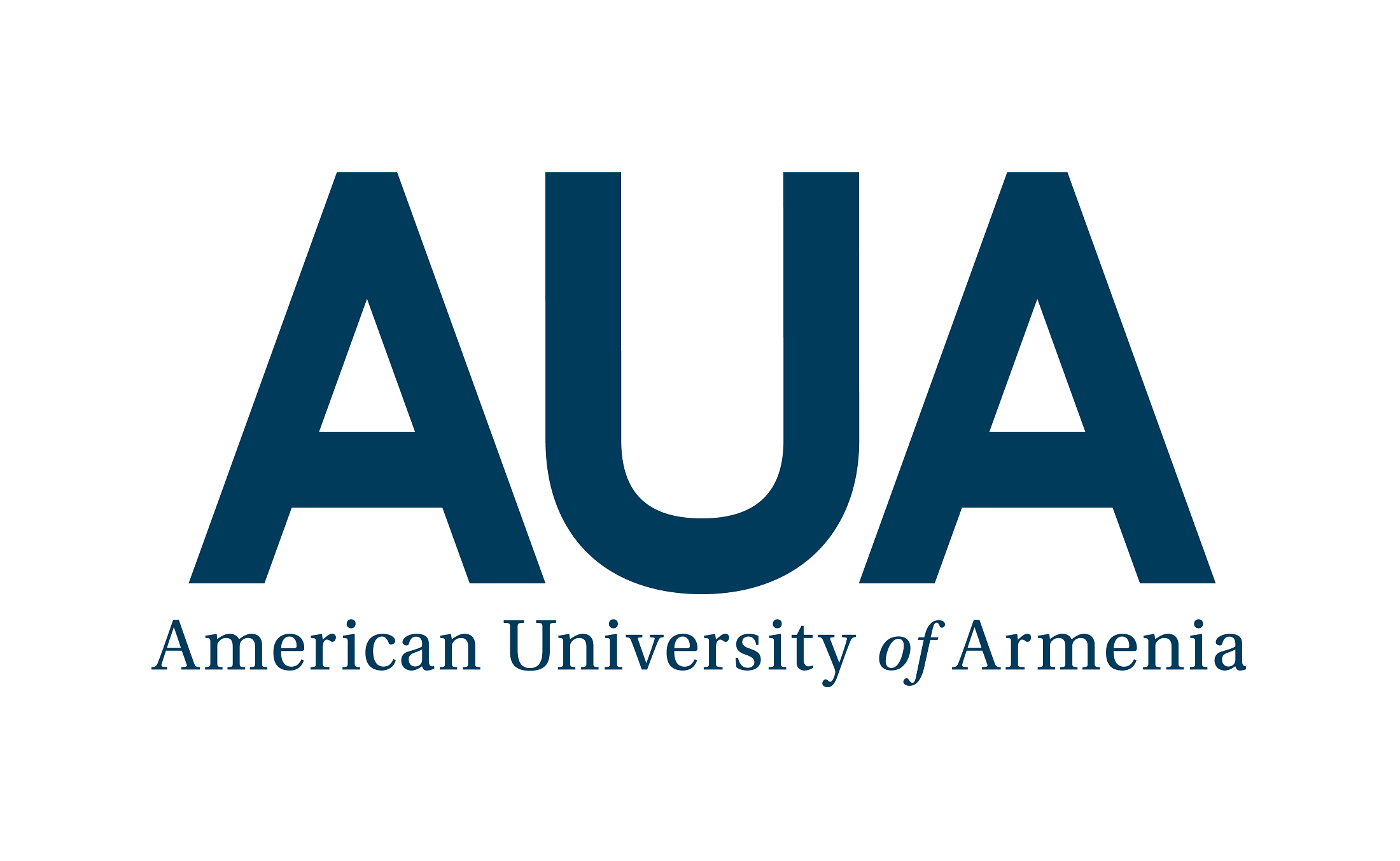 AUA official logo